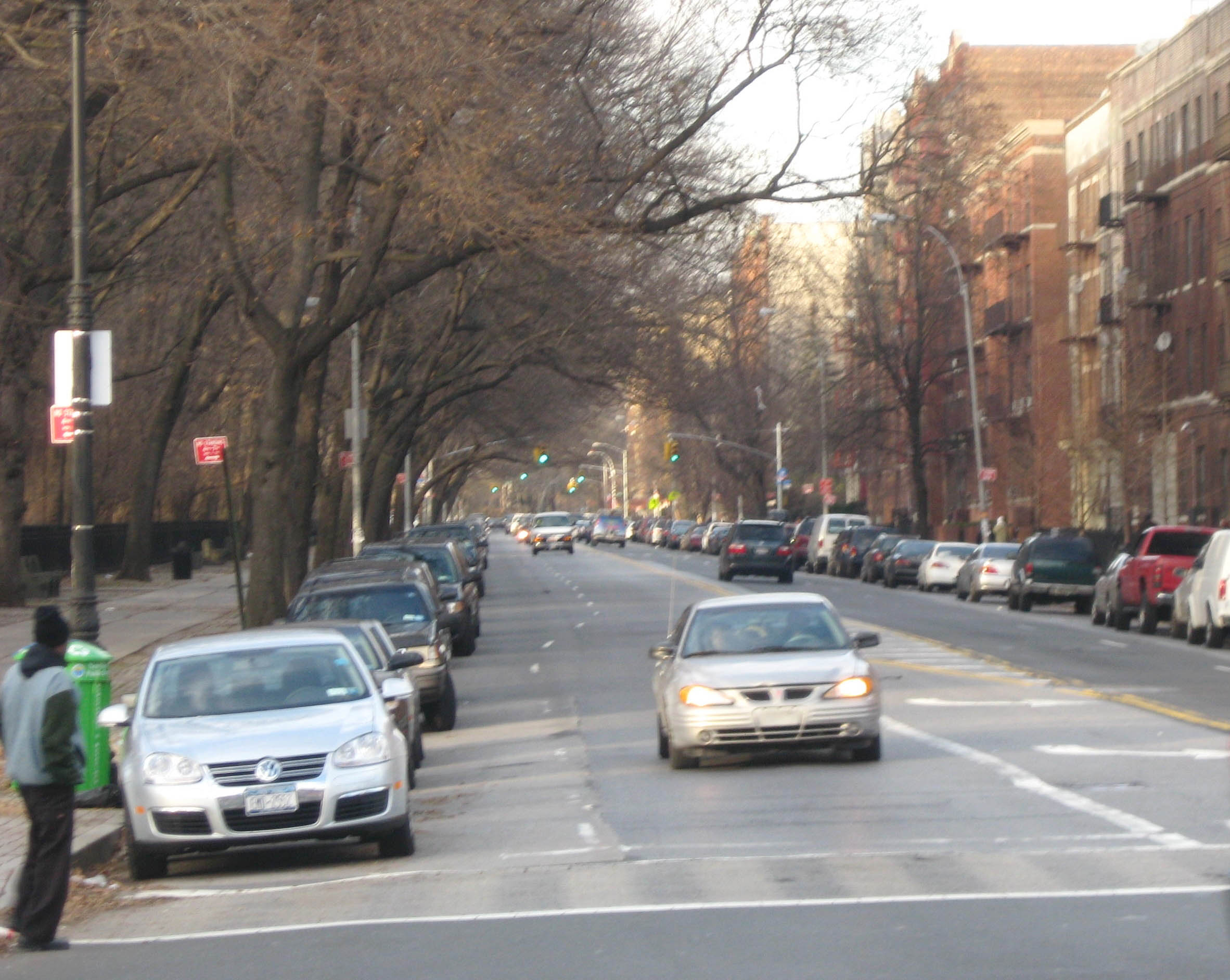 Looking north along Ocean Avenue (Brooklyn) from Parkside Avenue in Brooklyn on a mostly cloudy afternoon